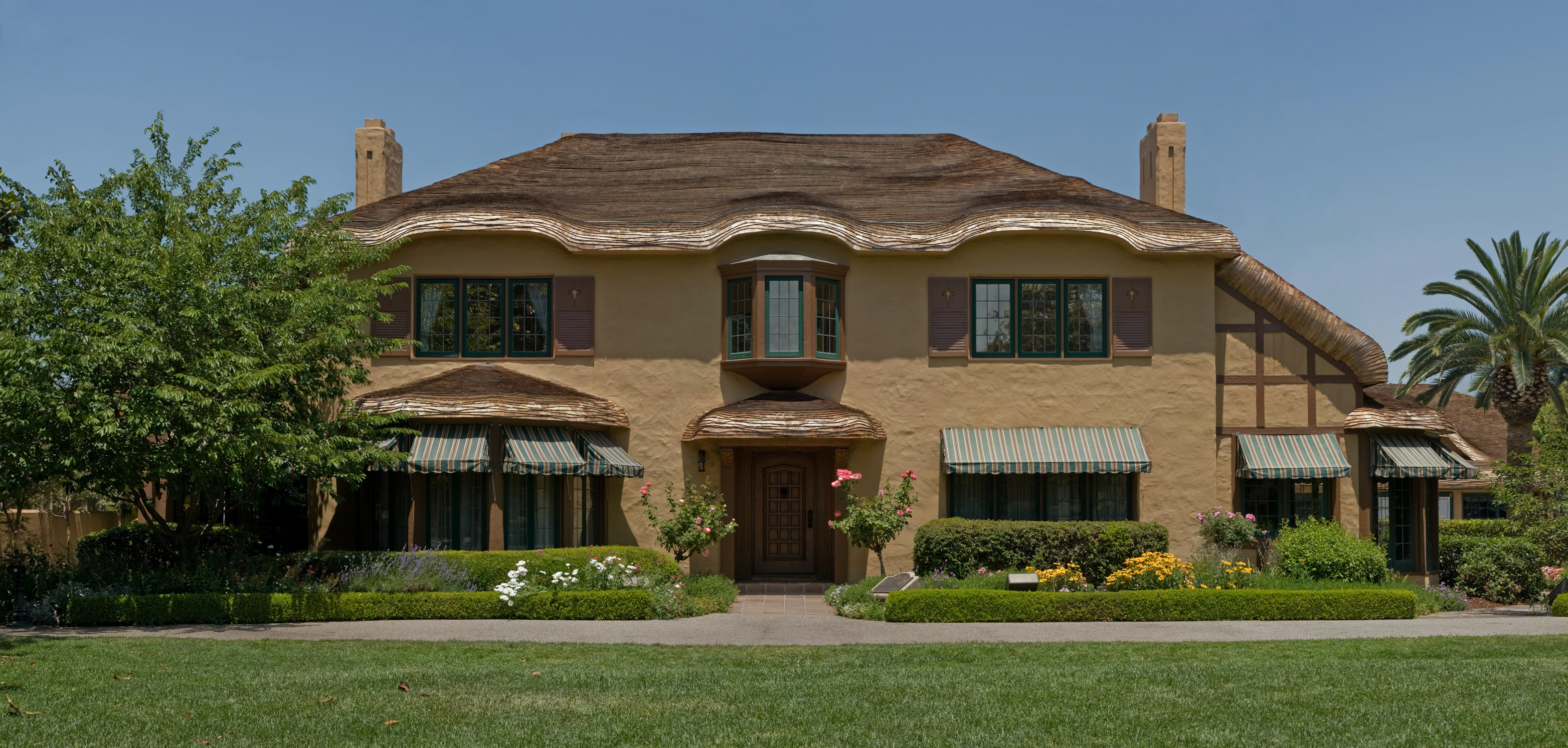 The Ainsley House in Campbell, California is an English Tudor-style house built in the 1930s that is now listed on the National Register of Historic Places.